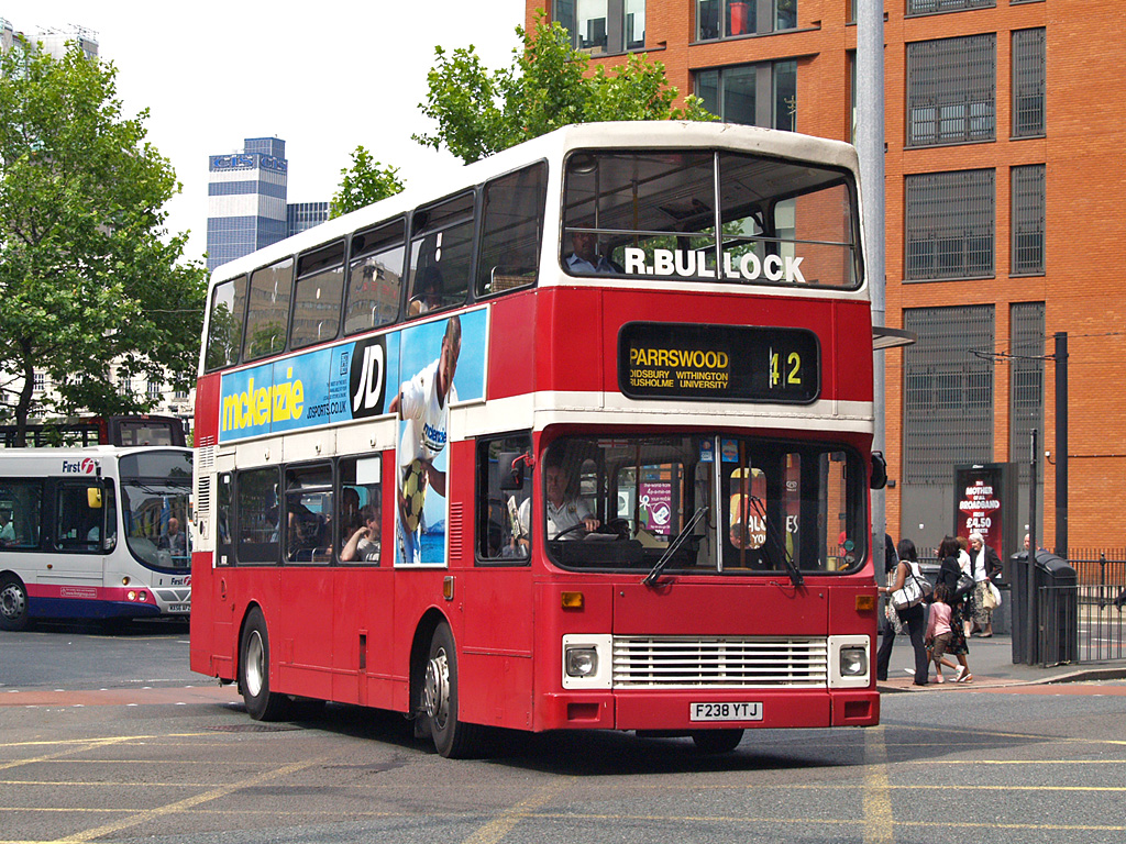 R. Bullock's bus (reg. F238 YTJ), a 1989 Leyland Olympian double-decker with heavily modified Alexander RH bodywork, pictured turning out of Manchester Piccadilly bus station onto Portland Street with a route 42 Piccadilly to East Didsbury (Parrs Wood) via Wilmslow Road service. First Manchester bus 69242 is following. It was new to Merseyside PTE (Merseybus) as their fleet no. 238. This particular bus had to be rebuilt in 1993 by the operator's Edge Lane works, after being stolen and ending up on its side near the River Mersey. It was one of a batch of similar vehicles bought by Bullocks from Merseybus (by then known as MTL North) just after their takeover by Arriva in February 2000. The batch were all modified by Bullocks before entering service, with their radiator grille and headlamp area being updated using panels manufactured in moulds used for the Northern Counties Palatine I. Their dot matrix displays were also subsequently removed. When Stagecoach took over the bus services of Bullock's in August 2008, it was bought for preservation by the Merseyside Transport Trust, and they have since restored the bus to its original manufactured condition, wearing MTL North livery and 0238 fleet number plates.